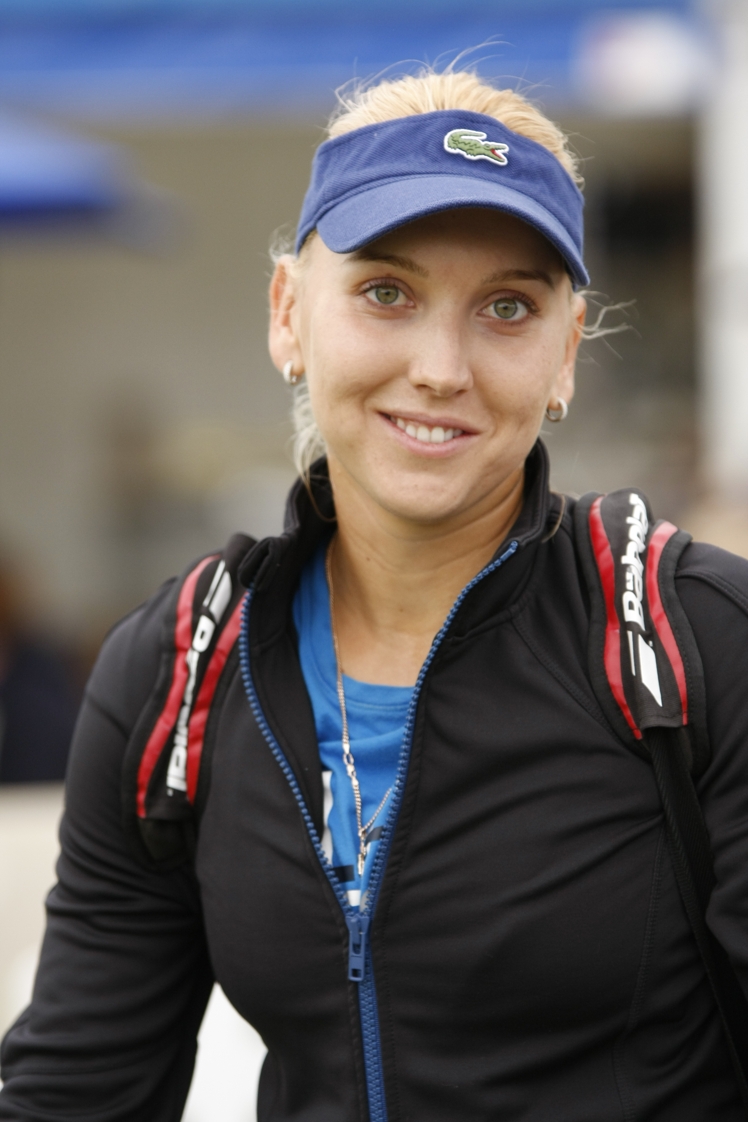 Vesnina at the Aegon International, June 2014